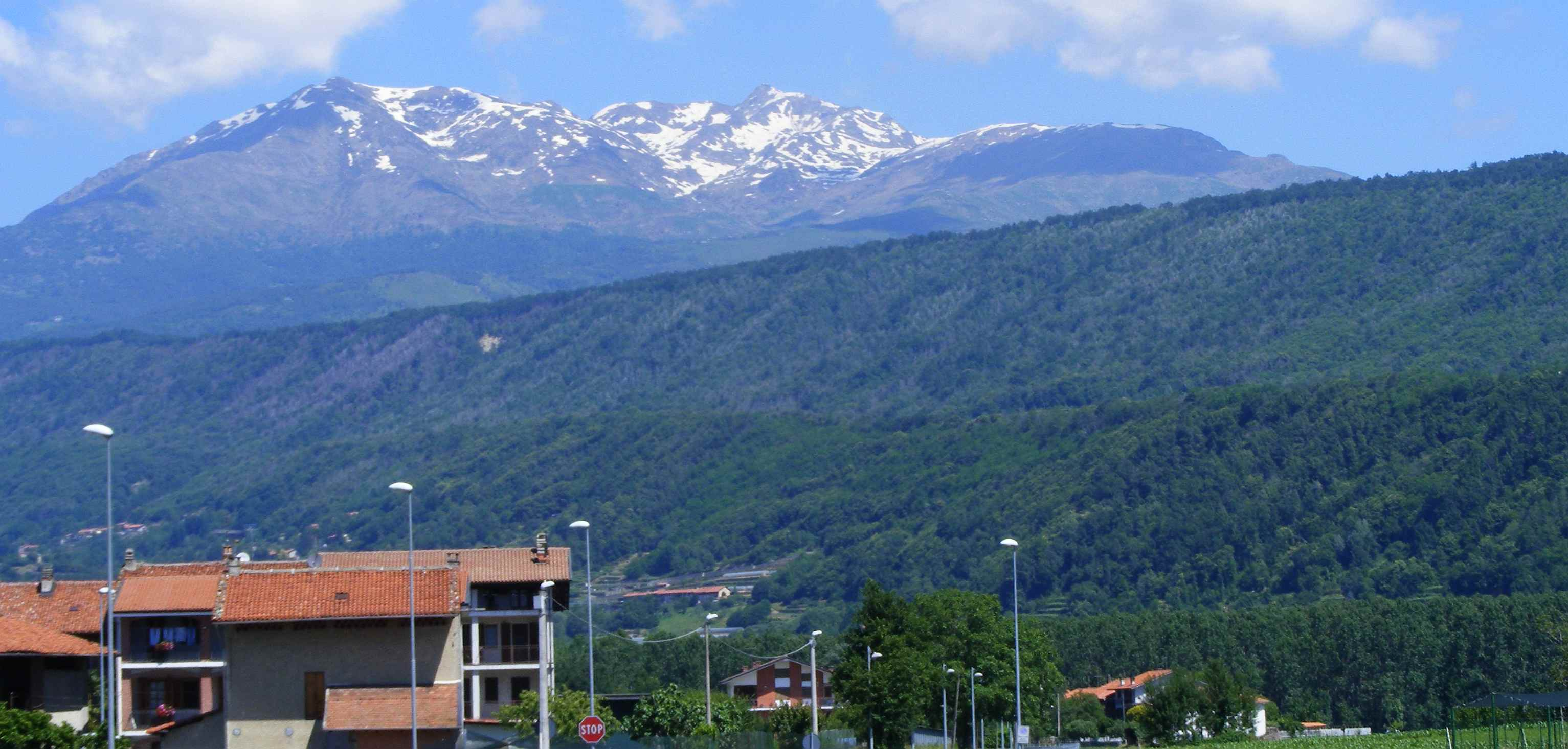 Mombarone from Bollengo (TO, Italy); on the foreground the Serra d'Ivrea